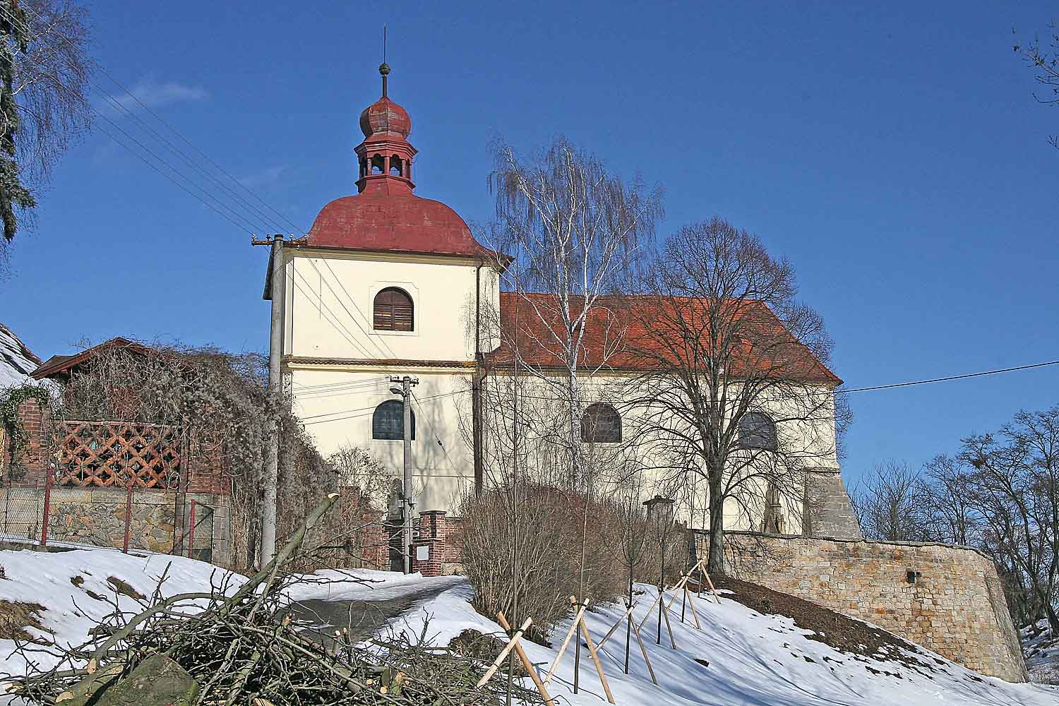 Church of Sain Stanislaus in village Sendražice, district Hradec Králové, Czech Republic Autor: Prazak Date: 20. 2. 2006